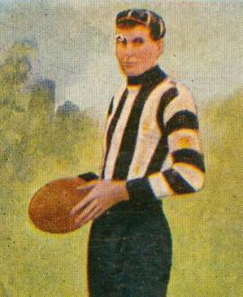 Photograph of Jim Addison from 1903-1904